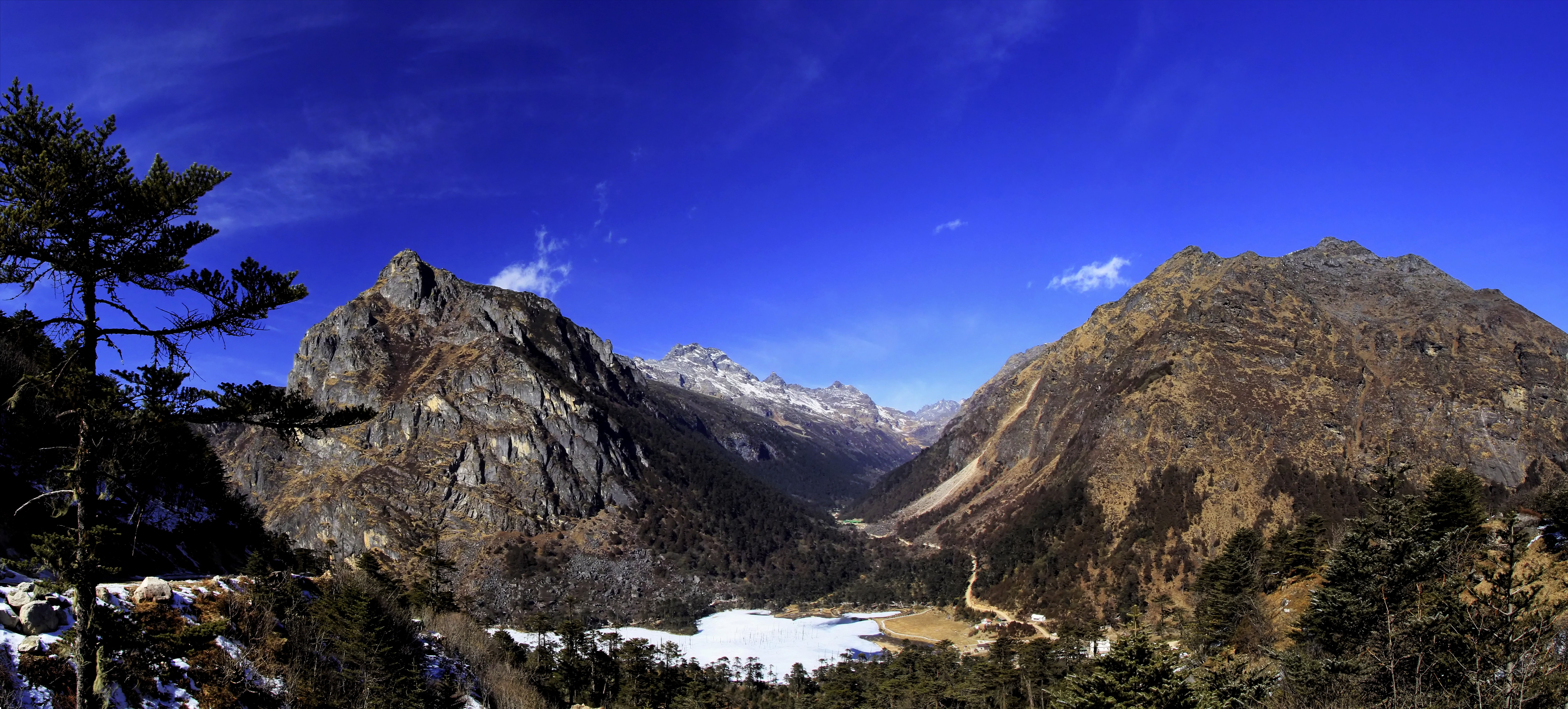 At 15,000 feet this lake is breathtakingly beautiful, even more than the lake, the journey to the lake is gorgeous with the view of the valley and the mountains. The terrain is very tough and one has to hire a big car to reach here which is expensive.